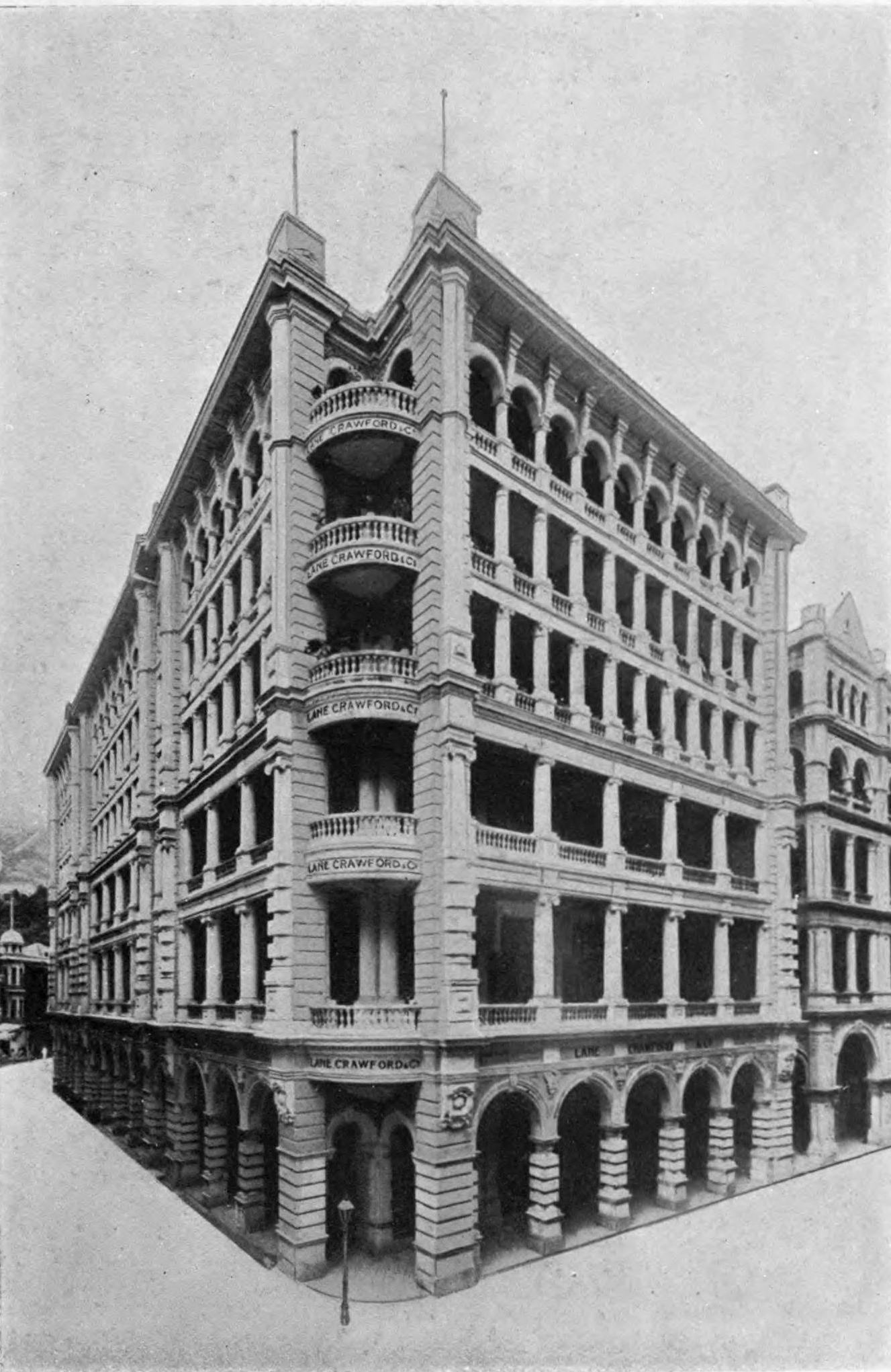 lane crawford and co premises